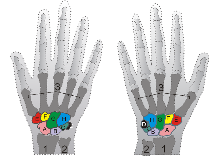 Carpal bones highlighted, as seen in the right hand. Proximal: A-Scaphoid B-Lunate C-Triquetrum (Triangular) D-Pisiform Distal: E-Trapezium F-Trapezoid G-Capitate H-Hamate Adjacent bones: 1-Radius (Radial bone) 2-Ulna (Elbow bone) 3-Metacarpus (Metacarpal bones)